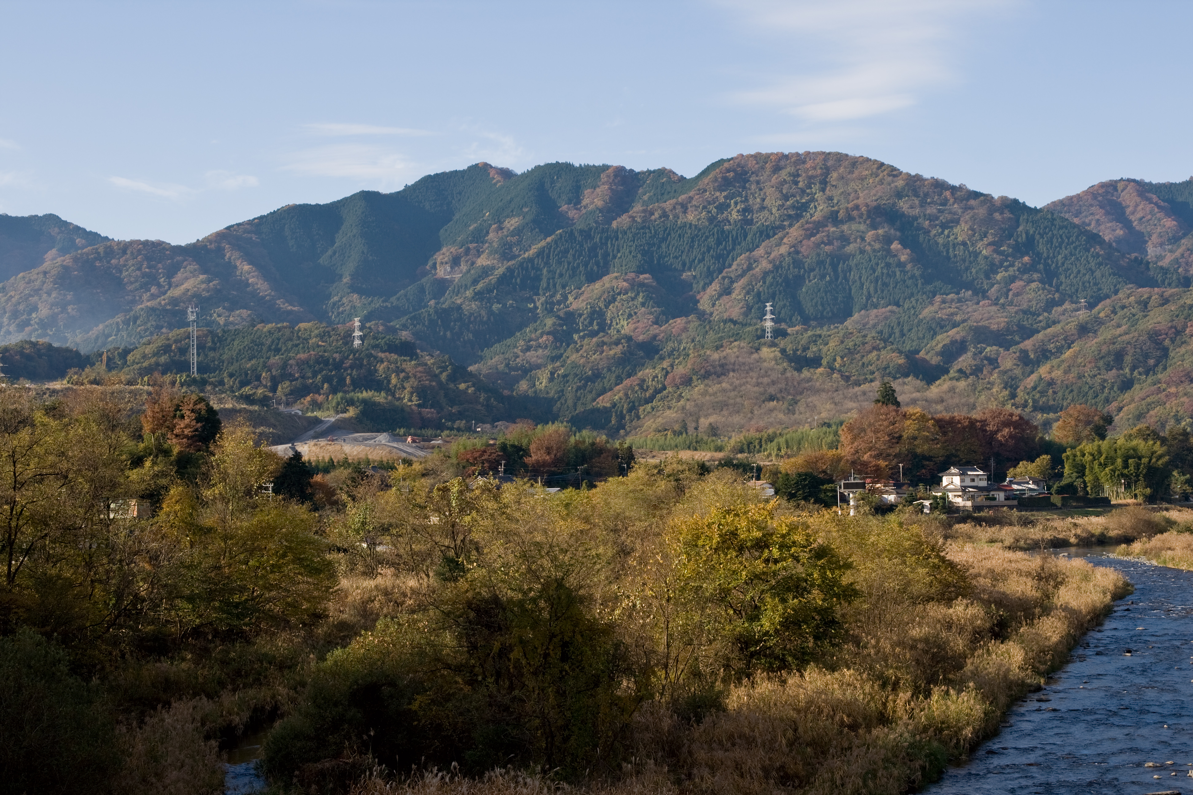 Mt.Kyōgatake as seen from Sumita-bridge (Sumita-ōhashi), Aikawa-town, Kanagawa, Japan.